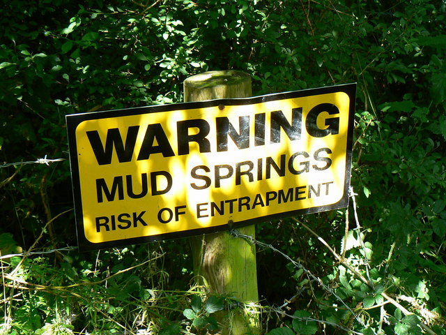 Wootton Bassett Mud Springs (3) The mud springs were 'discovered' in 1974, although they must have been known of for much longer. They are a rare geological phenomenon. There are several references on the web so the easiest thing is to insert the Google search page. This image is from the western edge of the small copse containing the springs.